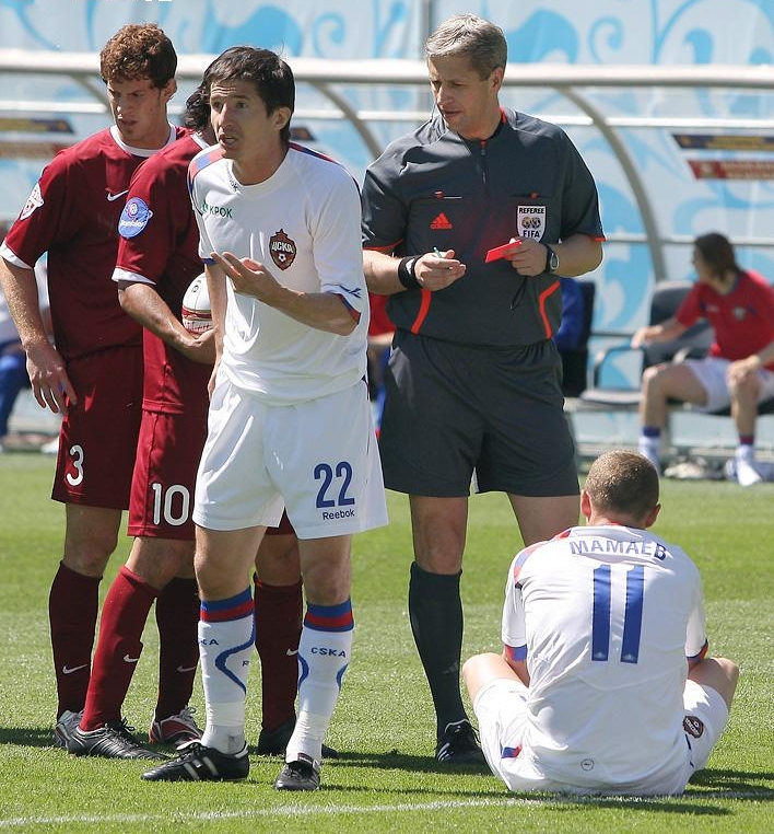 Russian Cup Final 2009. Ejecting of Pavel Mamaev